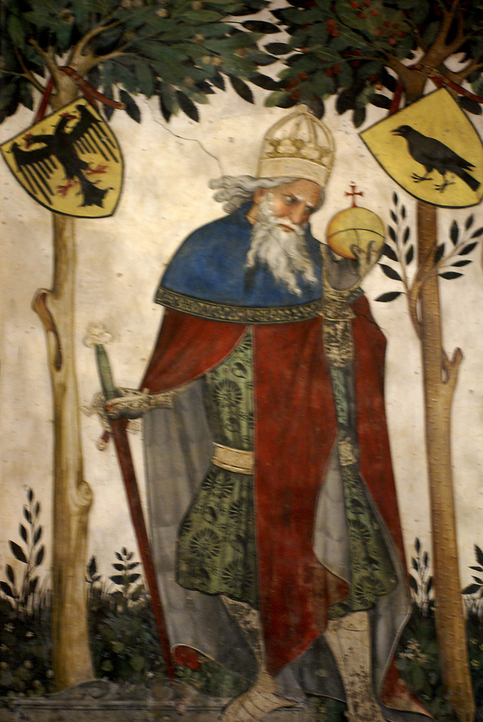 Frederick II of Saluzzo as Julius Caesar